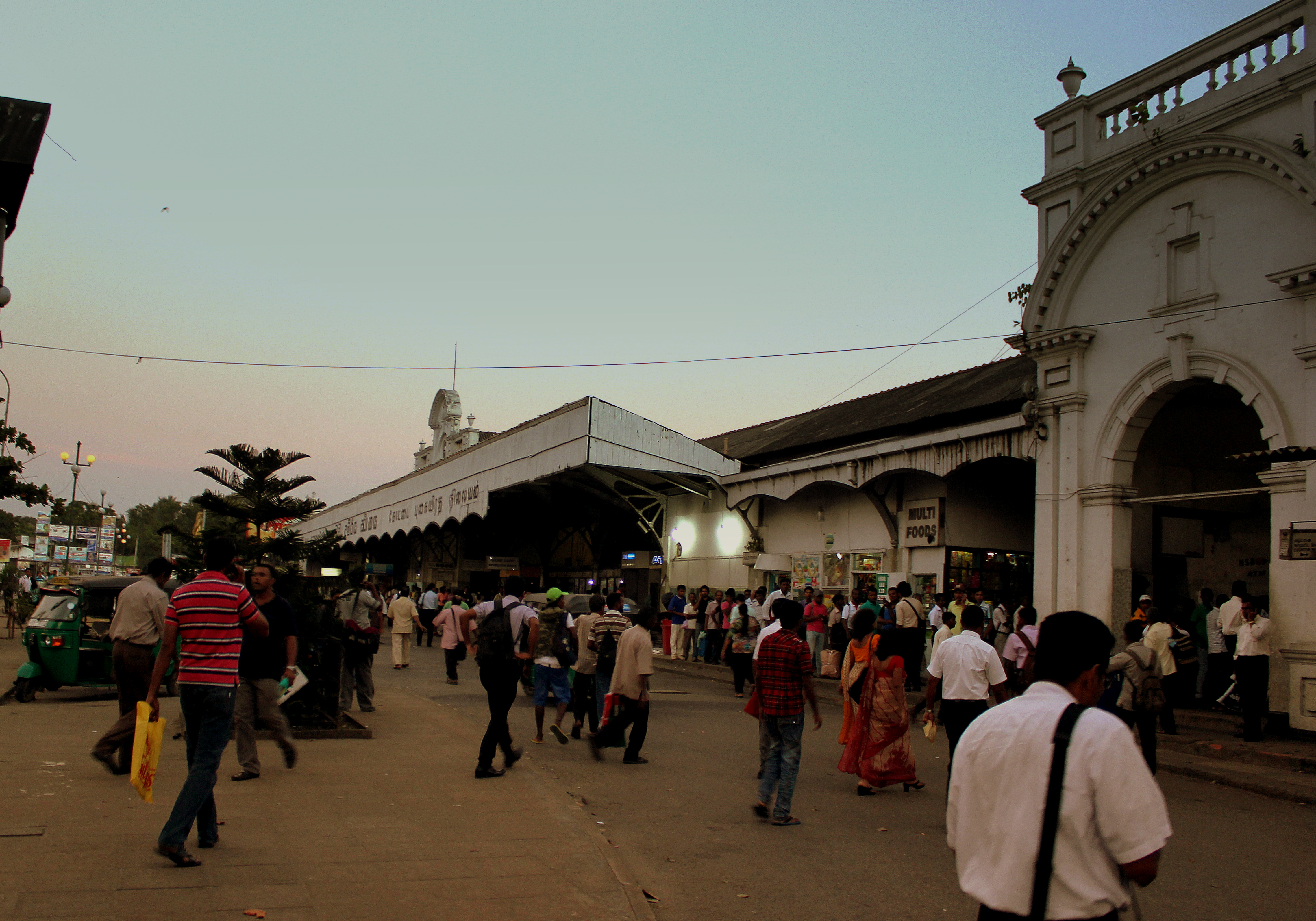 FORT STATION COLOMBO SRI LANKA JAN 2013